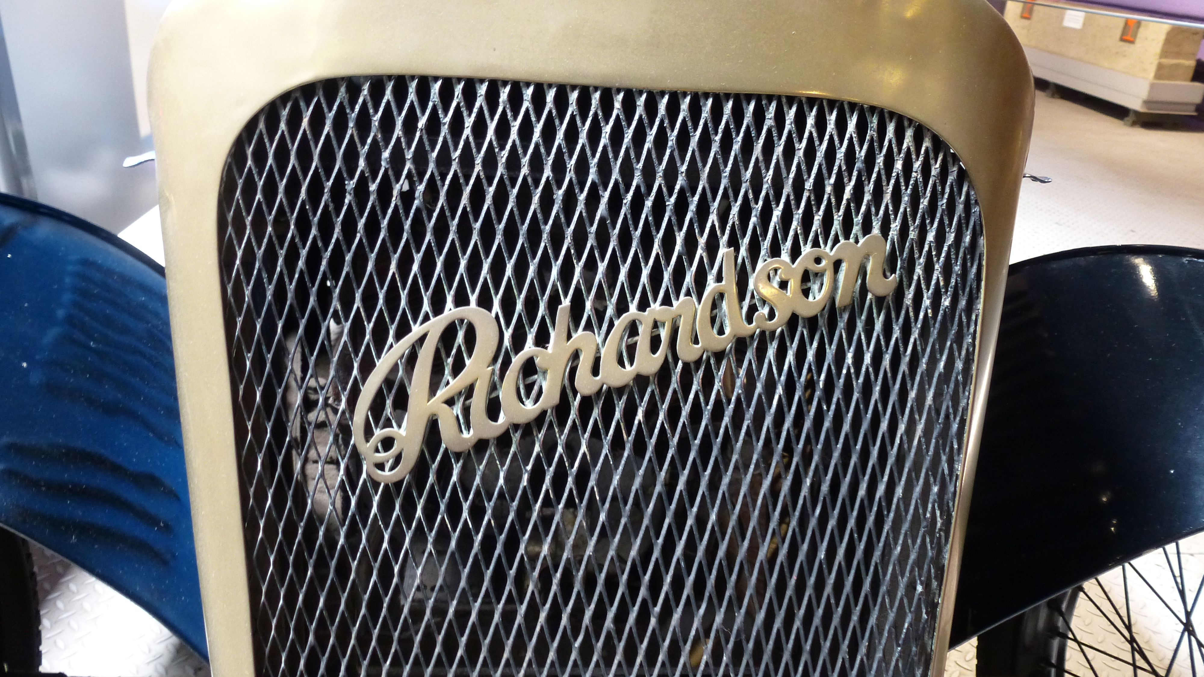 Emblem Richardson